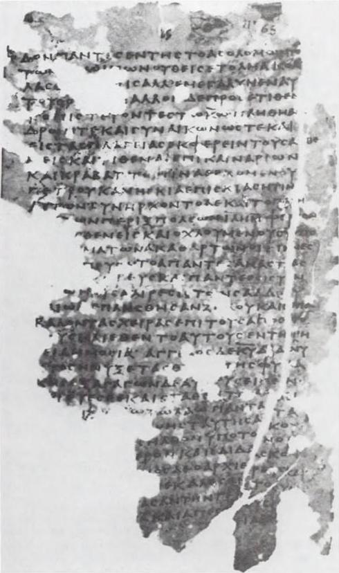 Acts 5,12-21